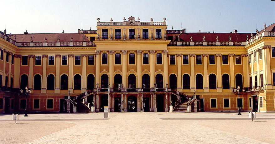 Austria, Vienna, Schönbrunn Palace